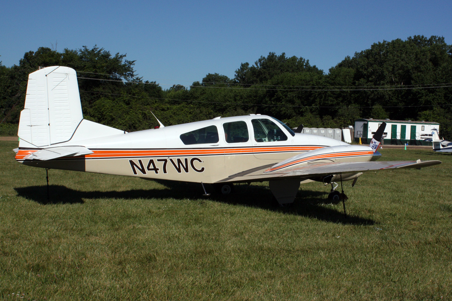 1959 Beech Model 95, Oshkosh, Wisconsin